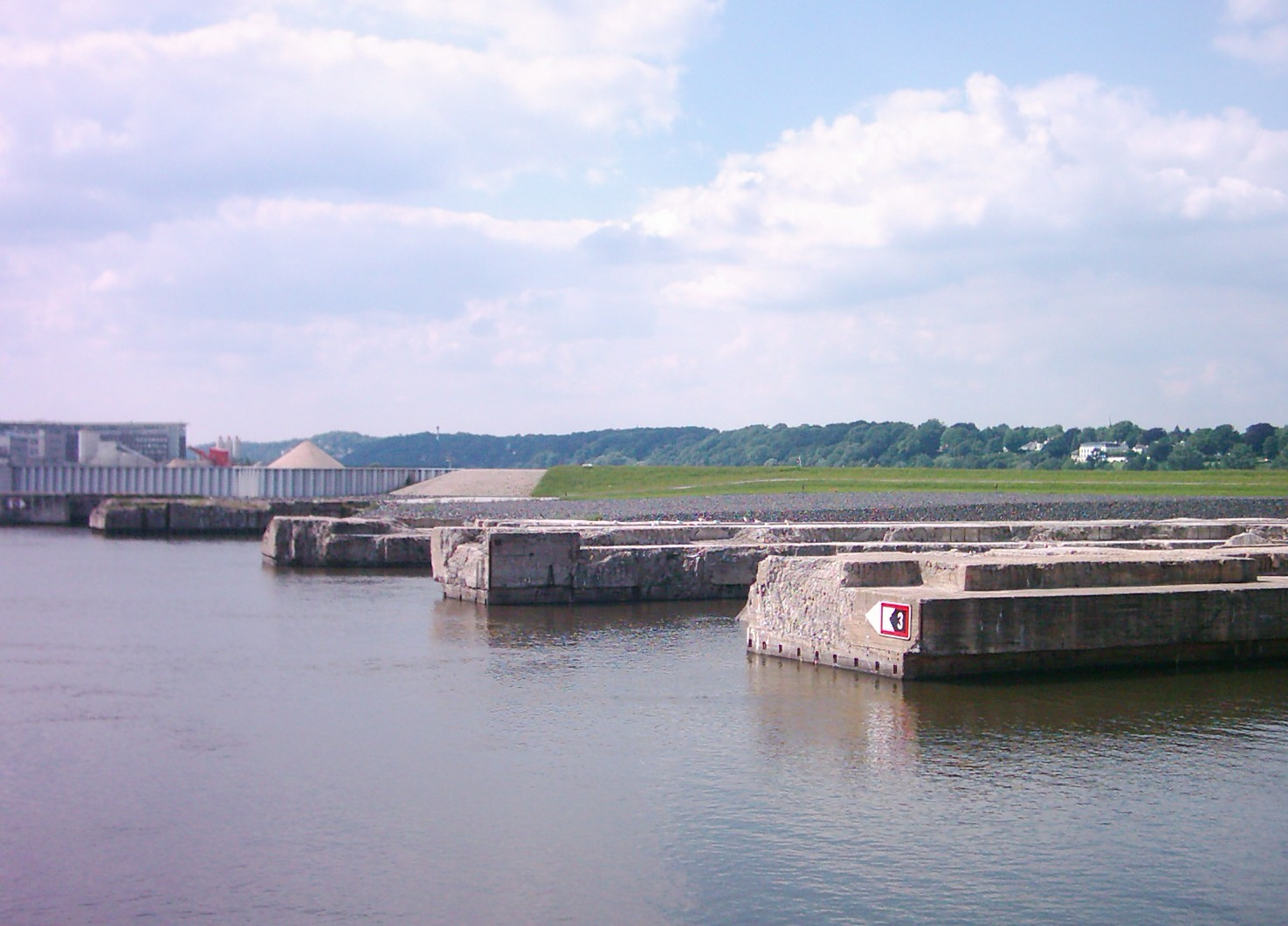 U-Boot-Bunker Finkenwerder, a World War II submarine bunker in Hamburg-Finkenwerder, Germany.